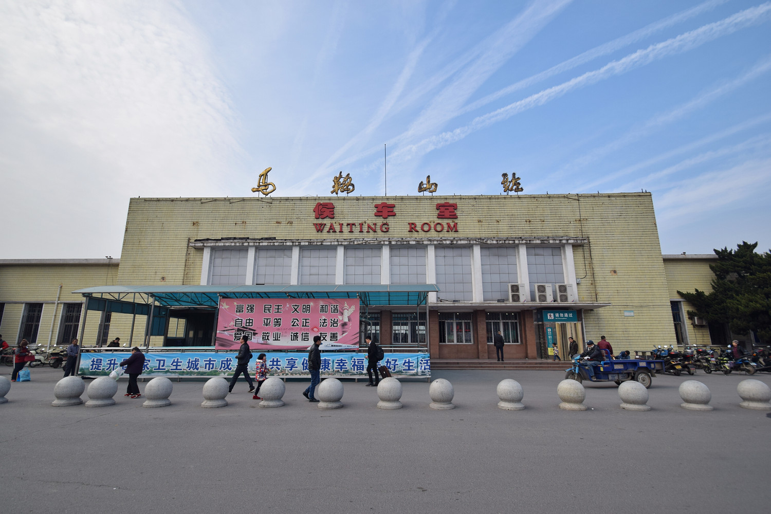 Ma'anshan Railway Station, Nanjing-Tongling Railway